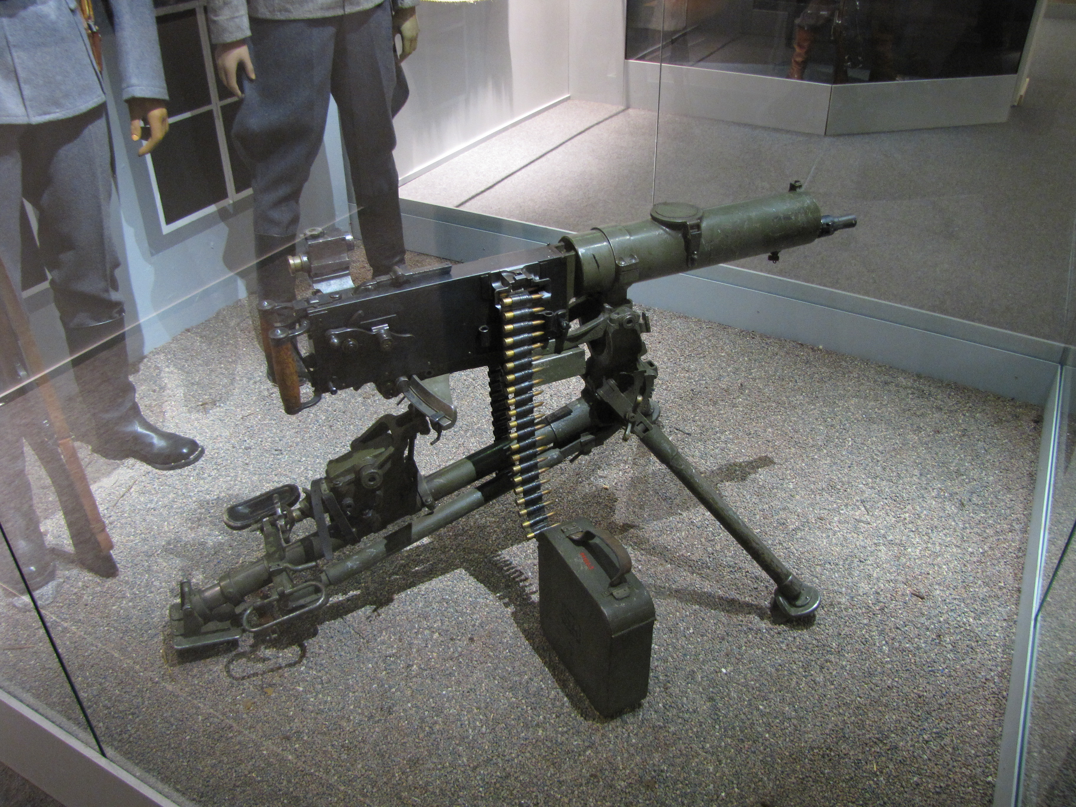 Finnish Maxim M/32-33 machine gun. Photographed in the "Winter War - 70 years" exhibition in the Military Museum of Finland.